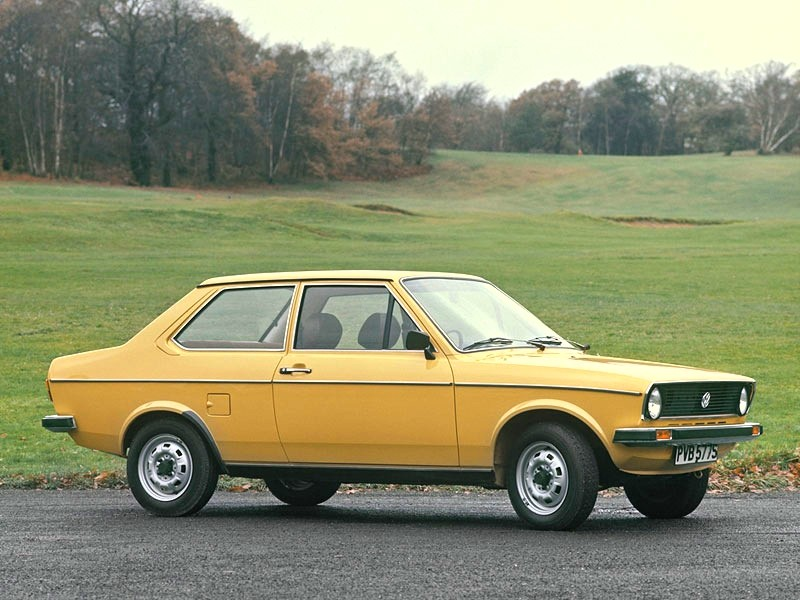 This is a VW Derby image I took in Copenhagen. Use it as you wish...